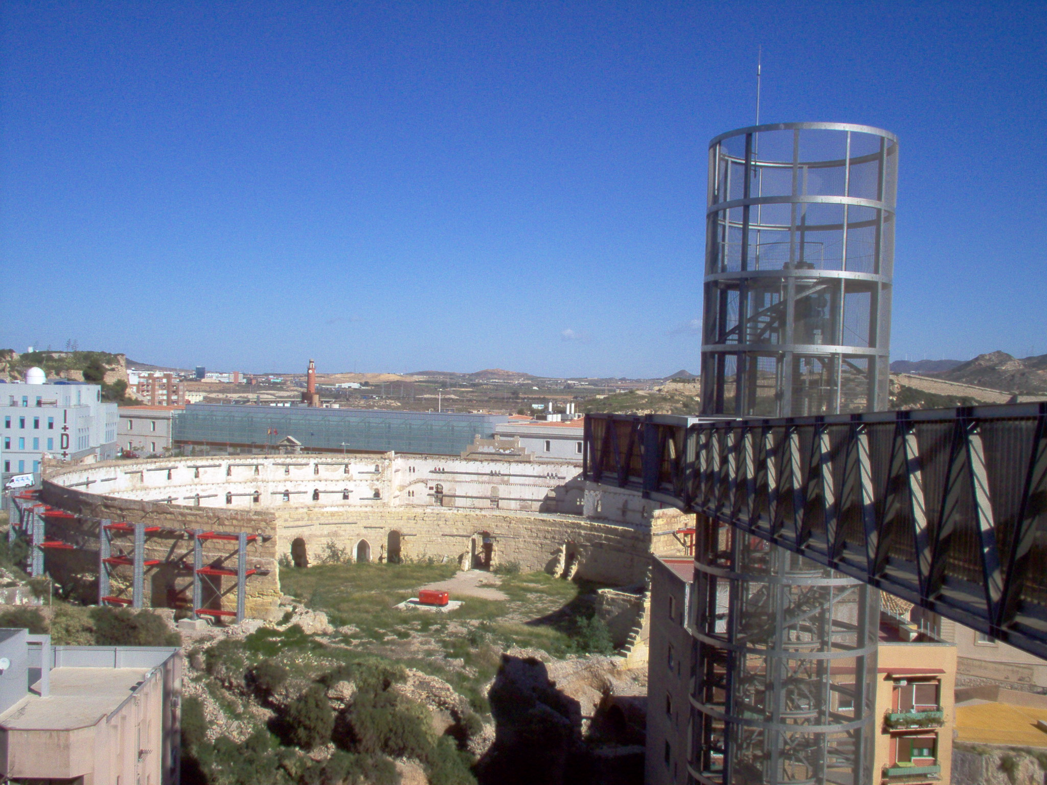 The bullring of Cartagena, under which is the Roman amphitheater, view from the panoramic elevator.